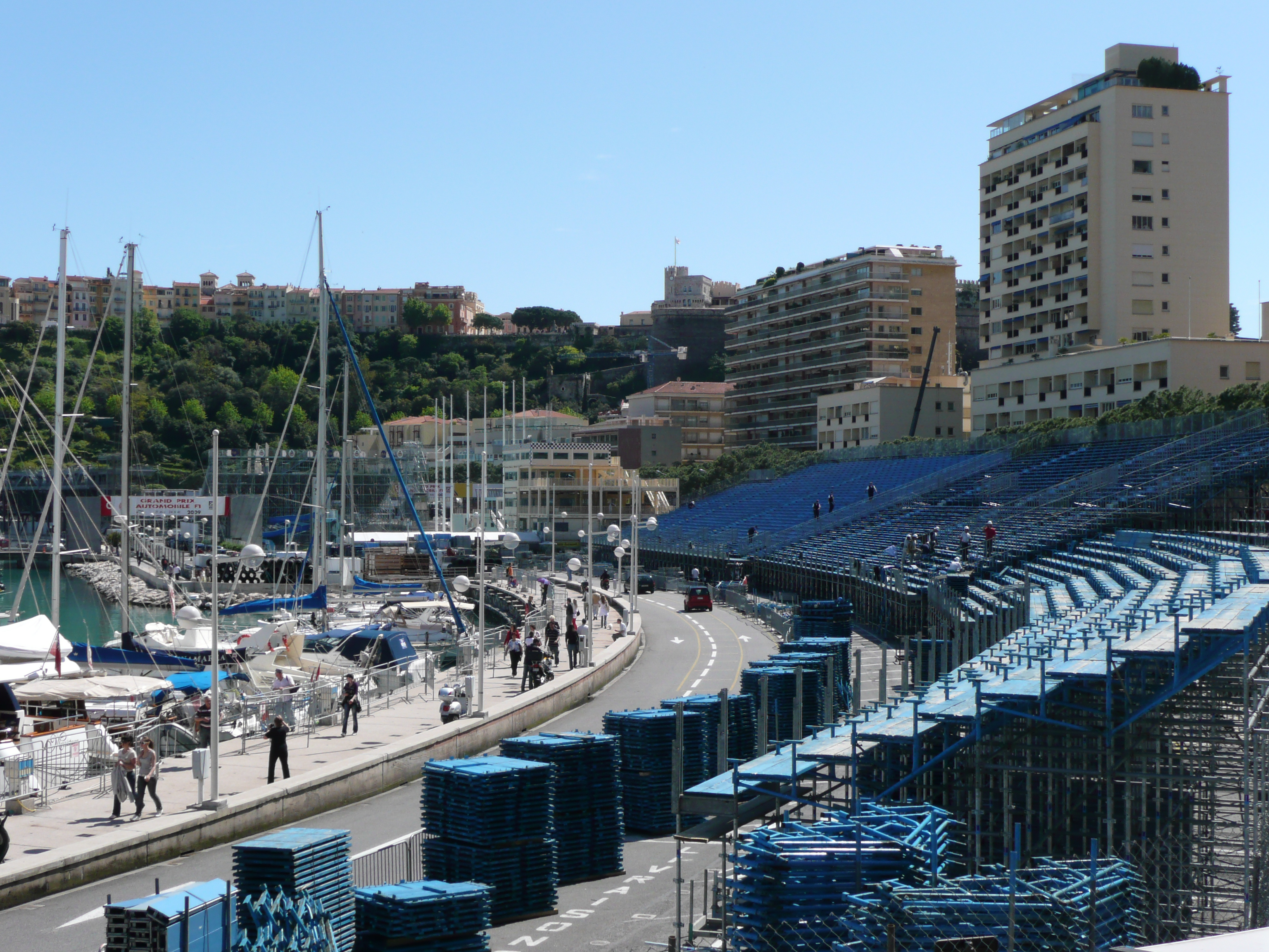 Road construction for Grand Prix F1 in 21-24 May 2009